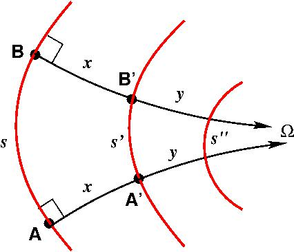 Scaling law for horocircle arcs with common diameters.